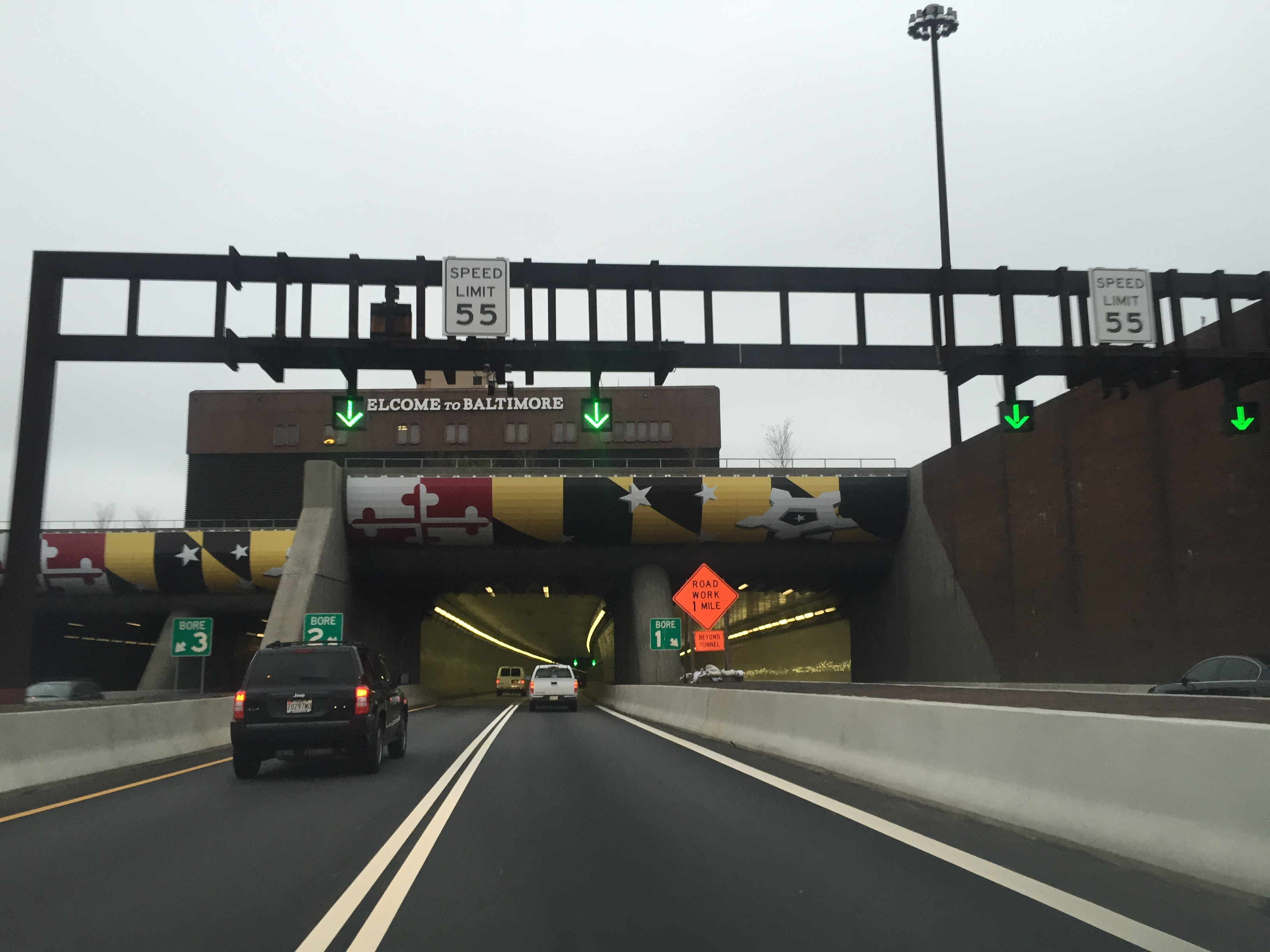 View south along Interstate 95 entering the Fort McHenry Tunnel in Baltimore, Maryland